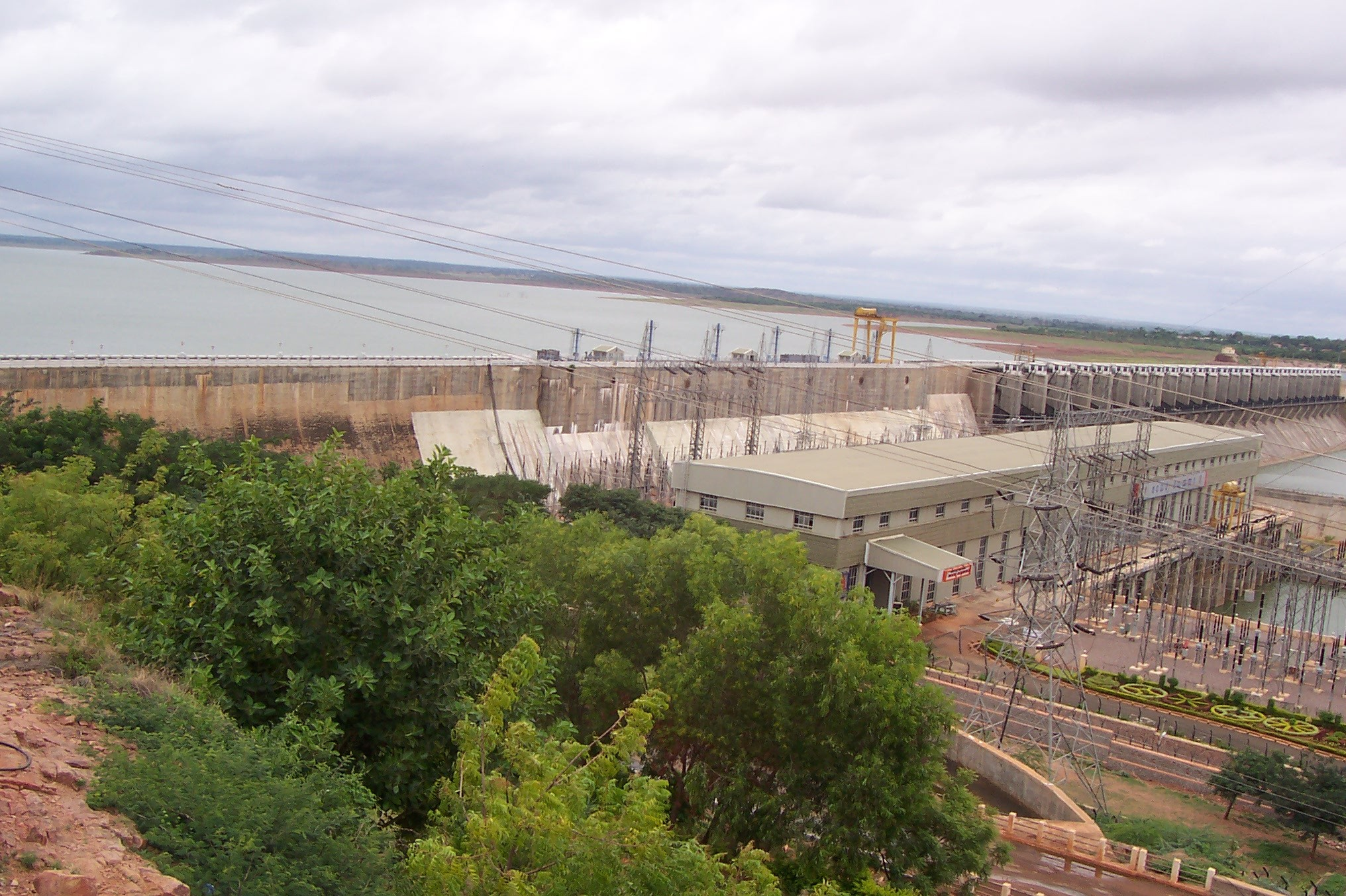 Upstream view of dam and reservoir- Alamatti dam